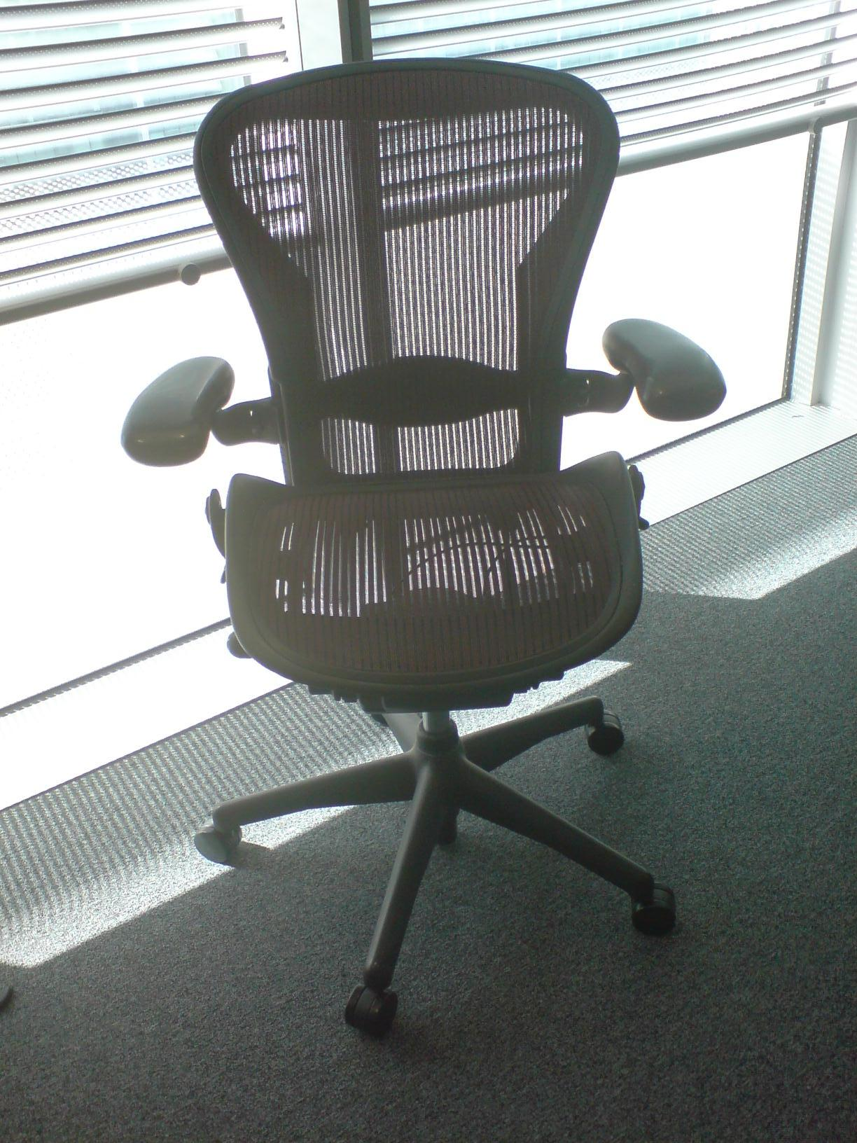 Aeron Chair in an office.